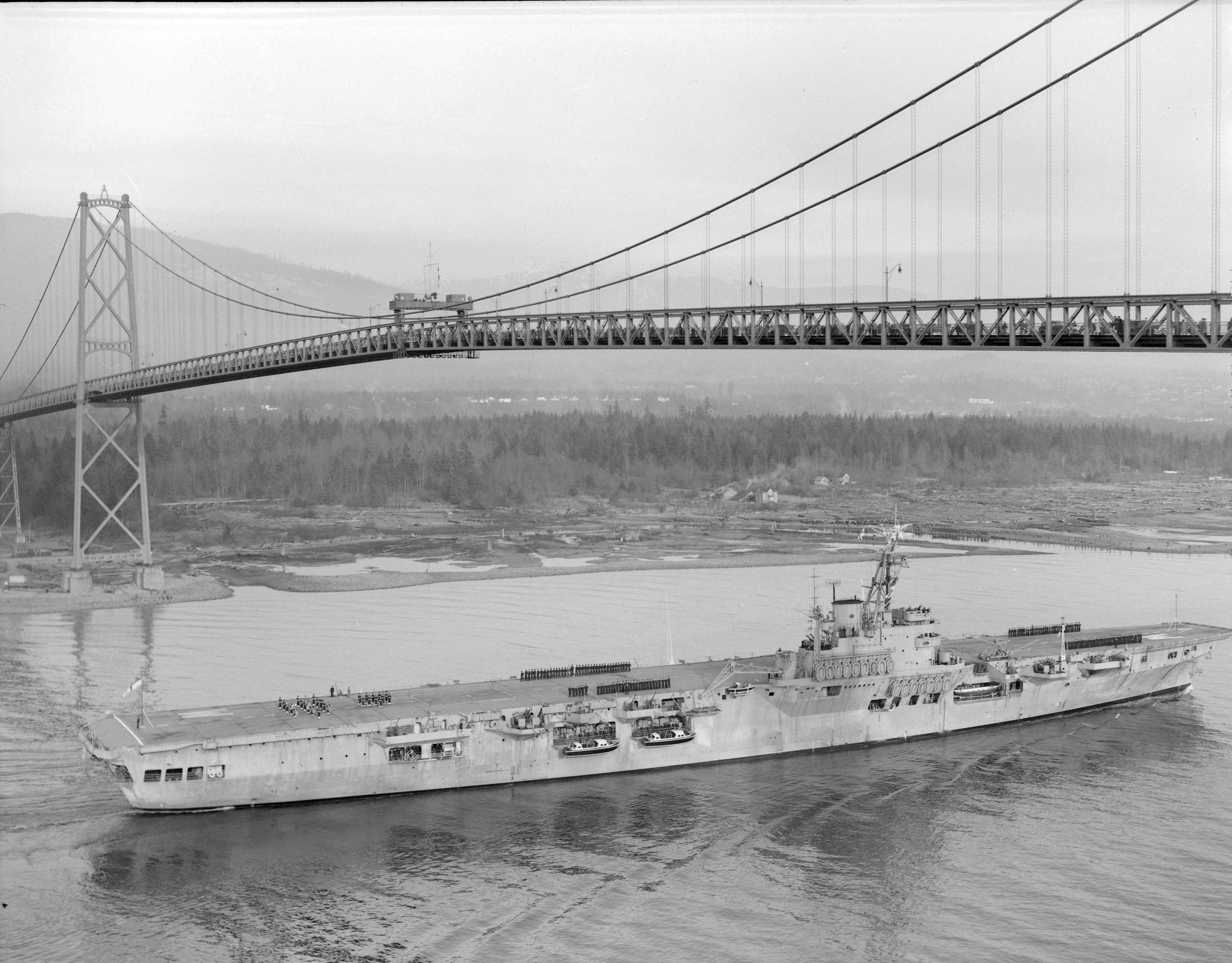 Original caption: H.M.C.S. Warrior passing under the Lions' Gate Bridge